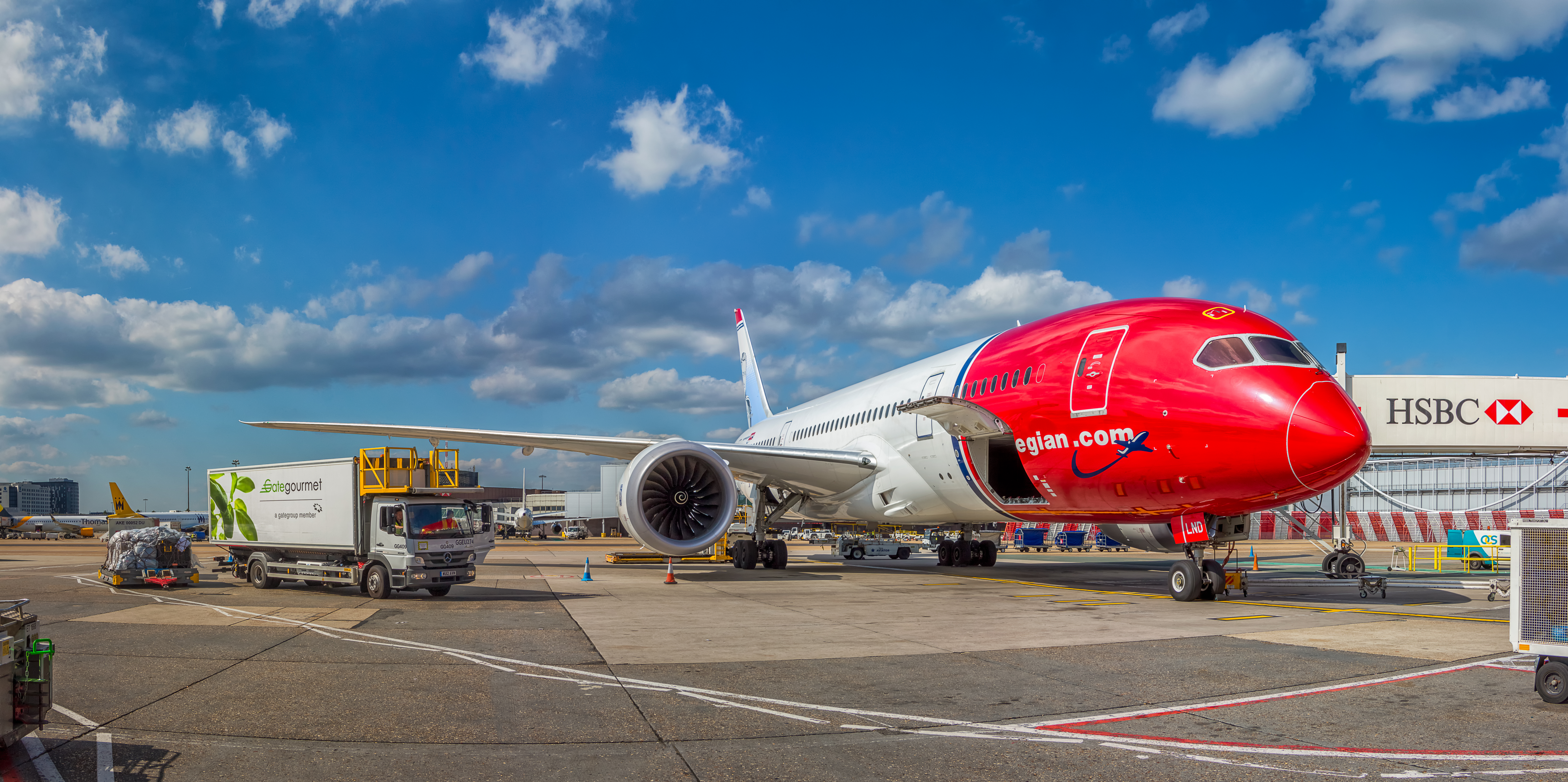 Norwegian Boeing 787-8 (EI-LND) at London Gatwick Airport, being serviced by Gate Gourmet